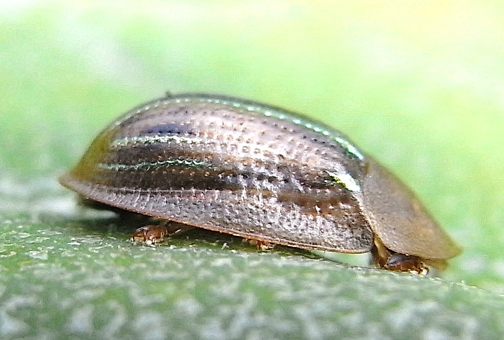 Cassida nobilis from Hungary, near Mako, at 2010-05-23 Ricoh R8